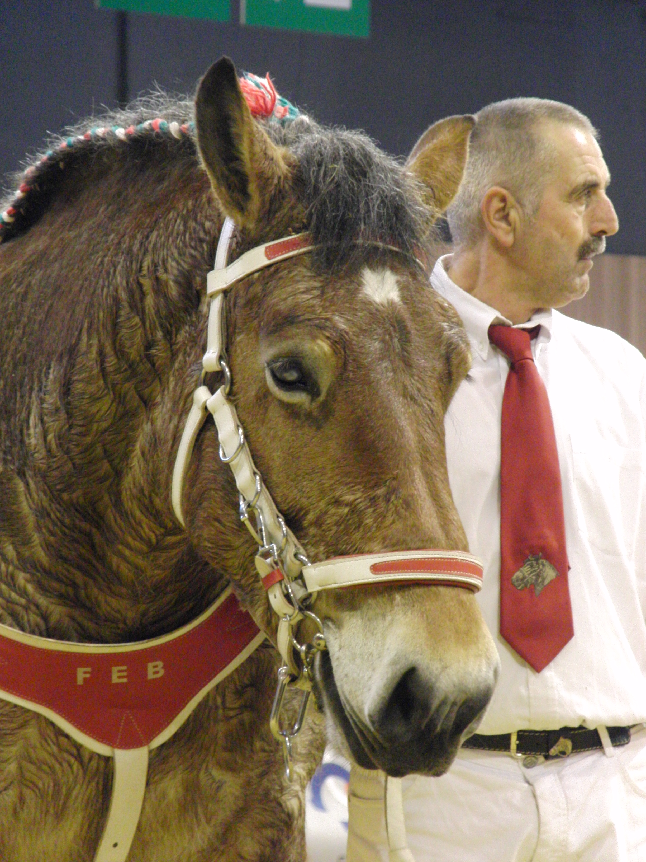 An Ardennais horse's head at the 2014 International Agriculture Show in Paris, France